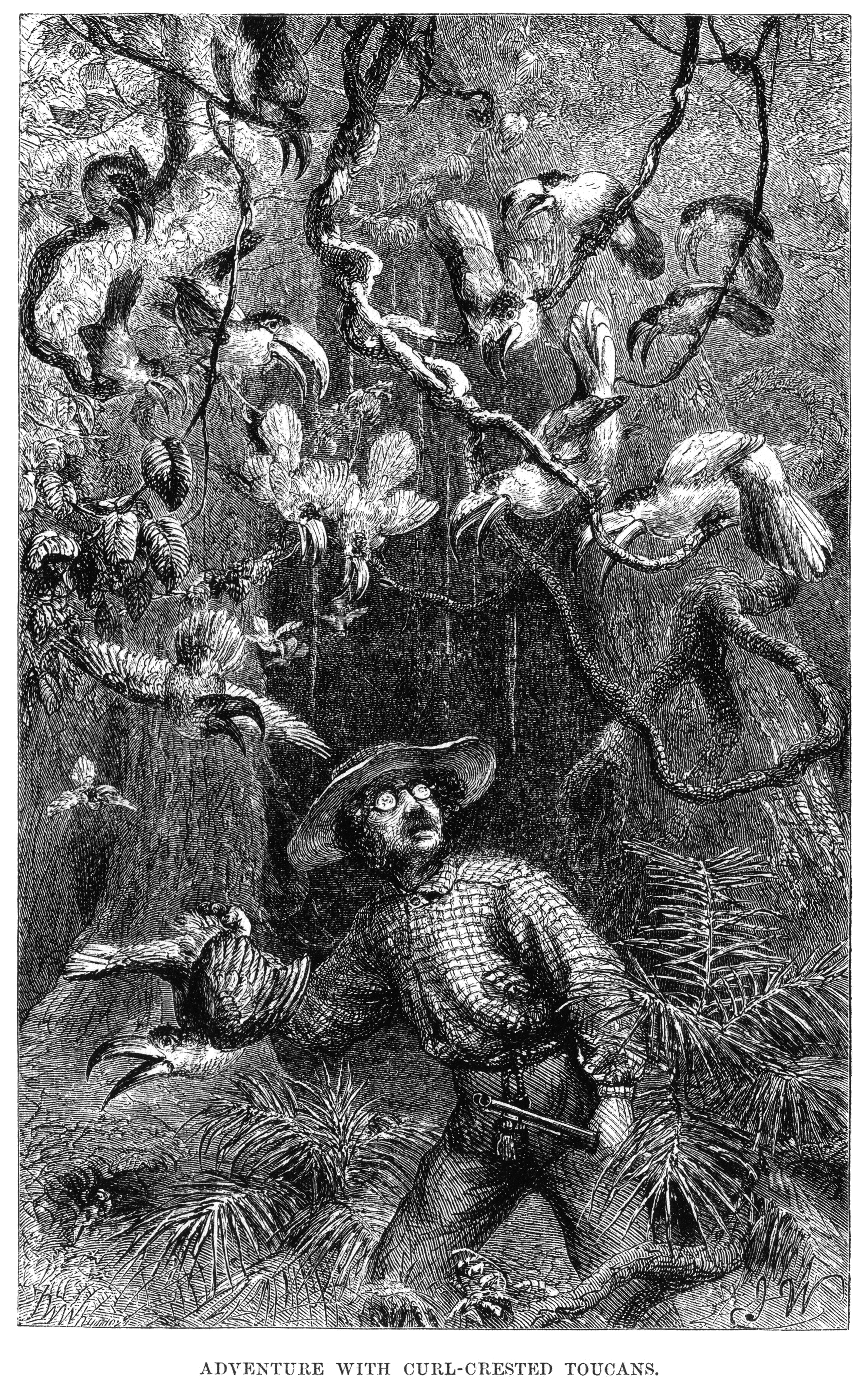 Caption: "ADVENTURE WITH CURL-CRESTED TOUCANS." This image was the frontispiece to volume 1 in the two volume publication. The next image, Image:Naturalist on the River Amazons figure 31.png, shows a toucan in greater detail.